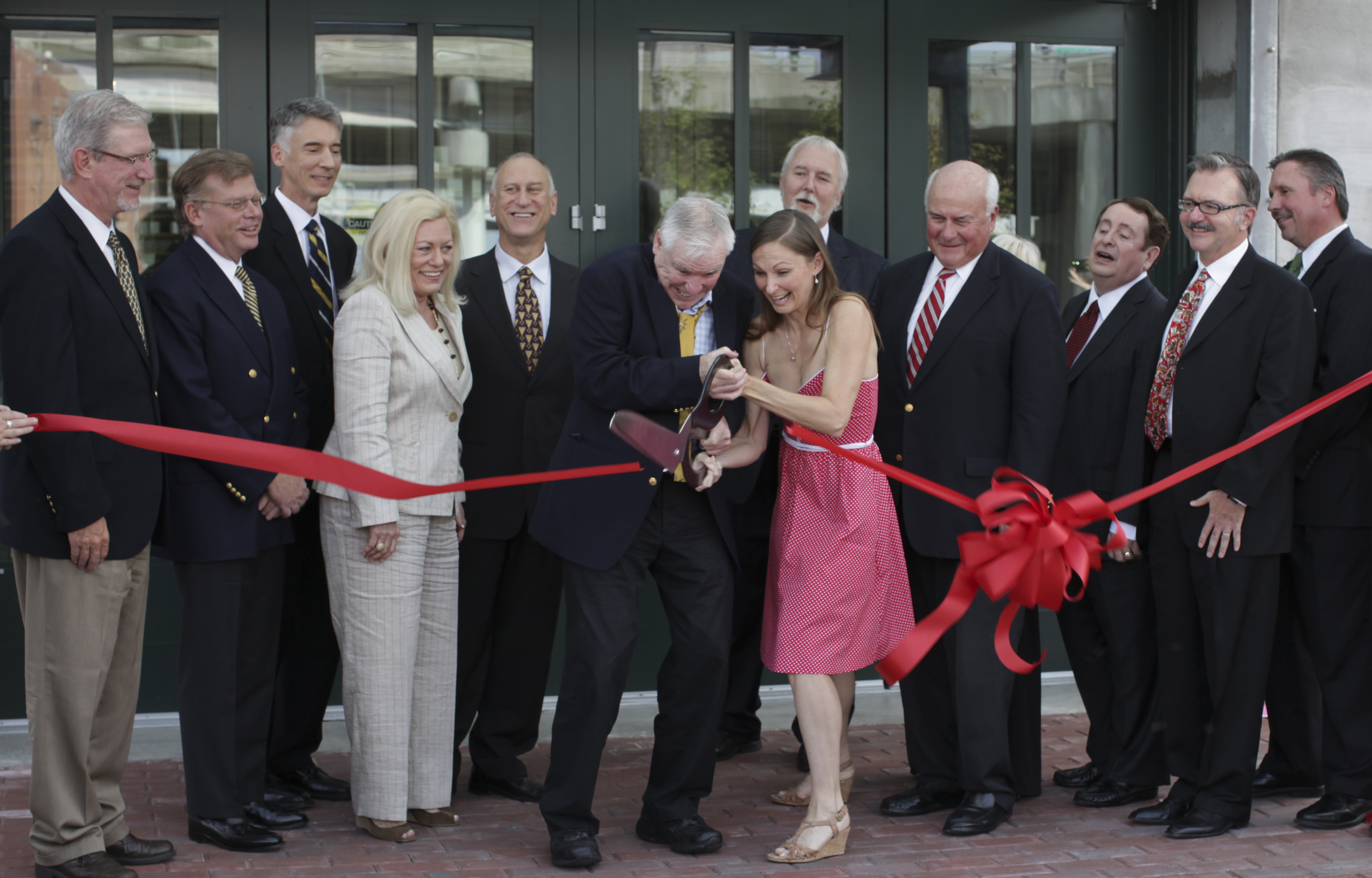 Kansas City Ballet's new home, the Todd Bolender Center for Dance & Creativity, grand opening in August 2011. Julia Irene Kauffman in white suit with William Whitener to her left. Photography Wheat Photography.